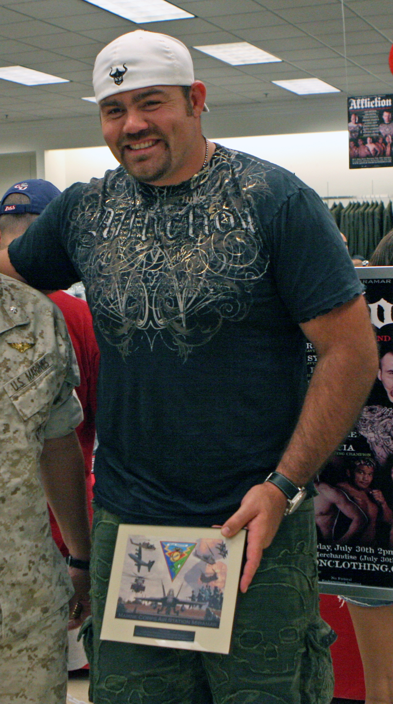 Lt. Col. Steven R. Cusumano, the executive officer of the air station, and Sgt. Maj. Roger E. Jenness, the base sergeant major, presents Tim Sylvia, a former Ultimate Fighting Championship heavyweight with a coin and a plaque from Col. Frank A. Richie, the commanding officer of Marine Corps Air Station Miramar. Affliction clothing company and more than a dozen mixed martial arts fighters visited the exchange on base to meet Marines and sign autographs. (original text)